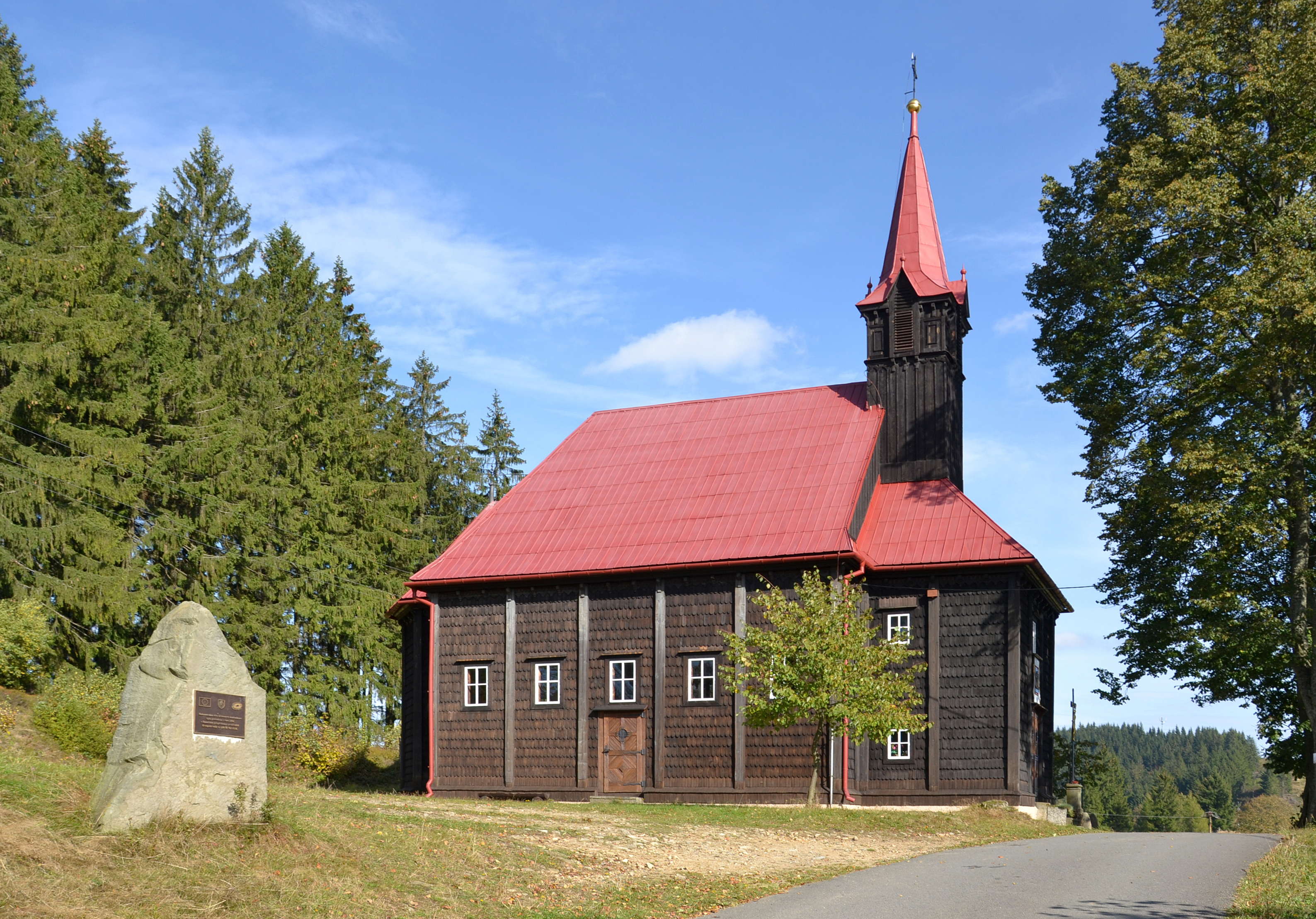 Gruň, Czech Republic - Chapel of Saint Mary of Help